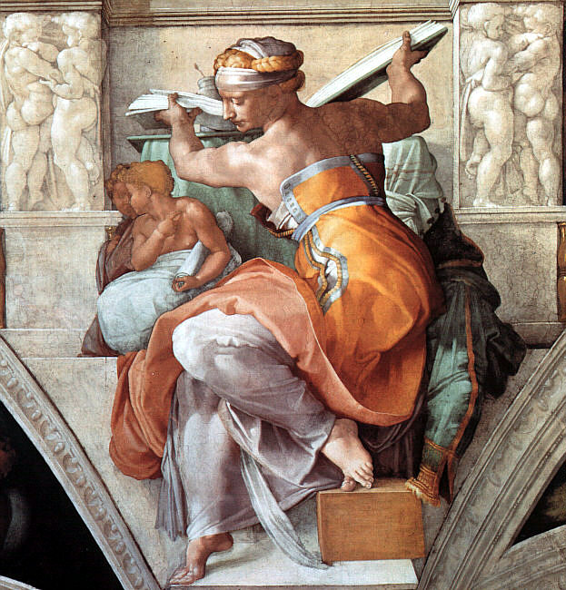 The Libyan Sibyl, 1508-12, from the ceiling of the Sistine Chapel